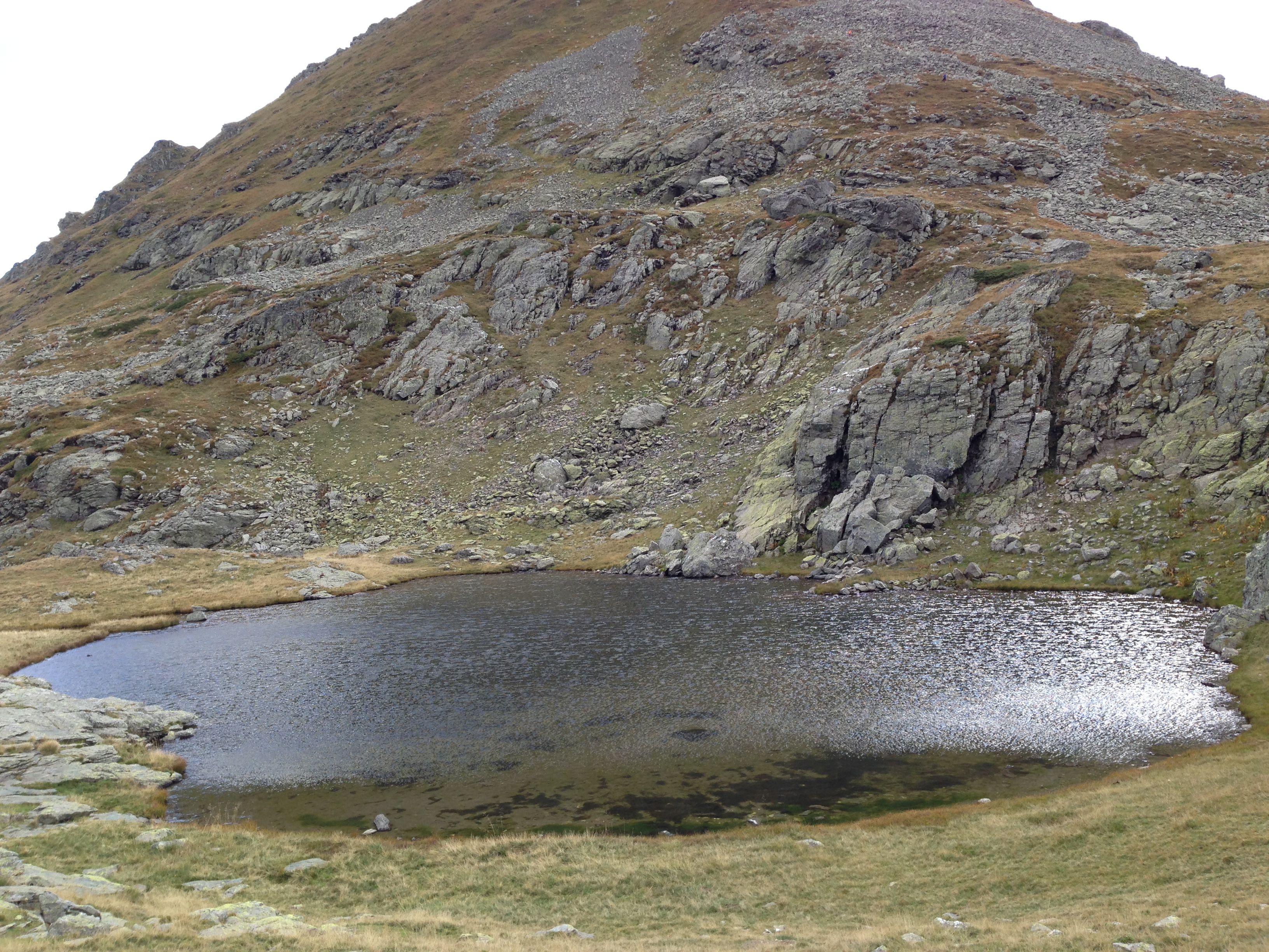 Upper Vraca (Silver) Lake, on Shar Mountain, Macedonia